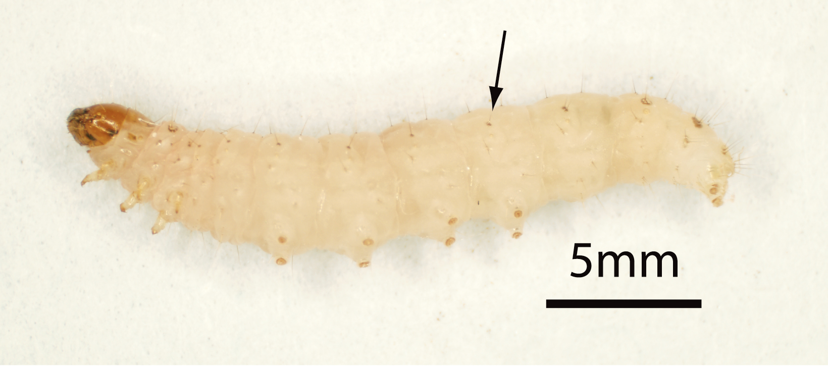 Larva of a Mediterranean flour moth – Ephestia kuehniella (Pyralidae)